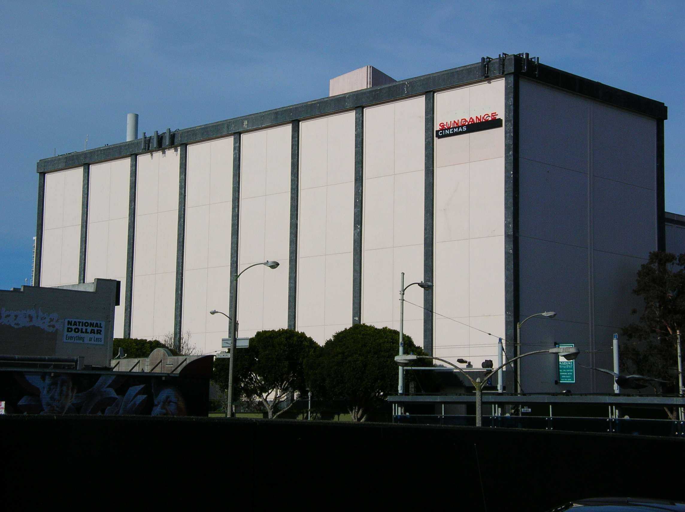 The Sundance Kabuki Cinemas at the Japan Center, Japantown, San Francisco.